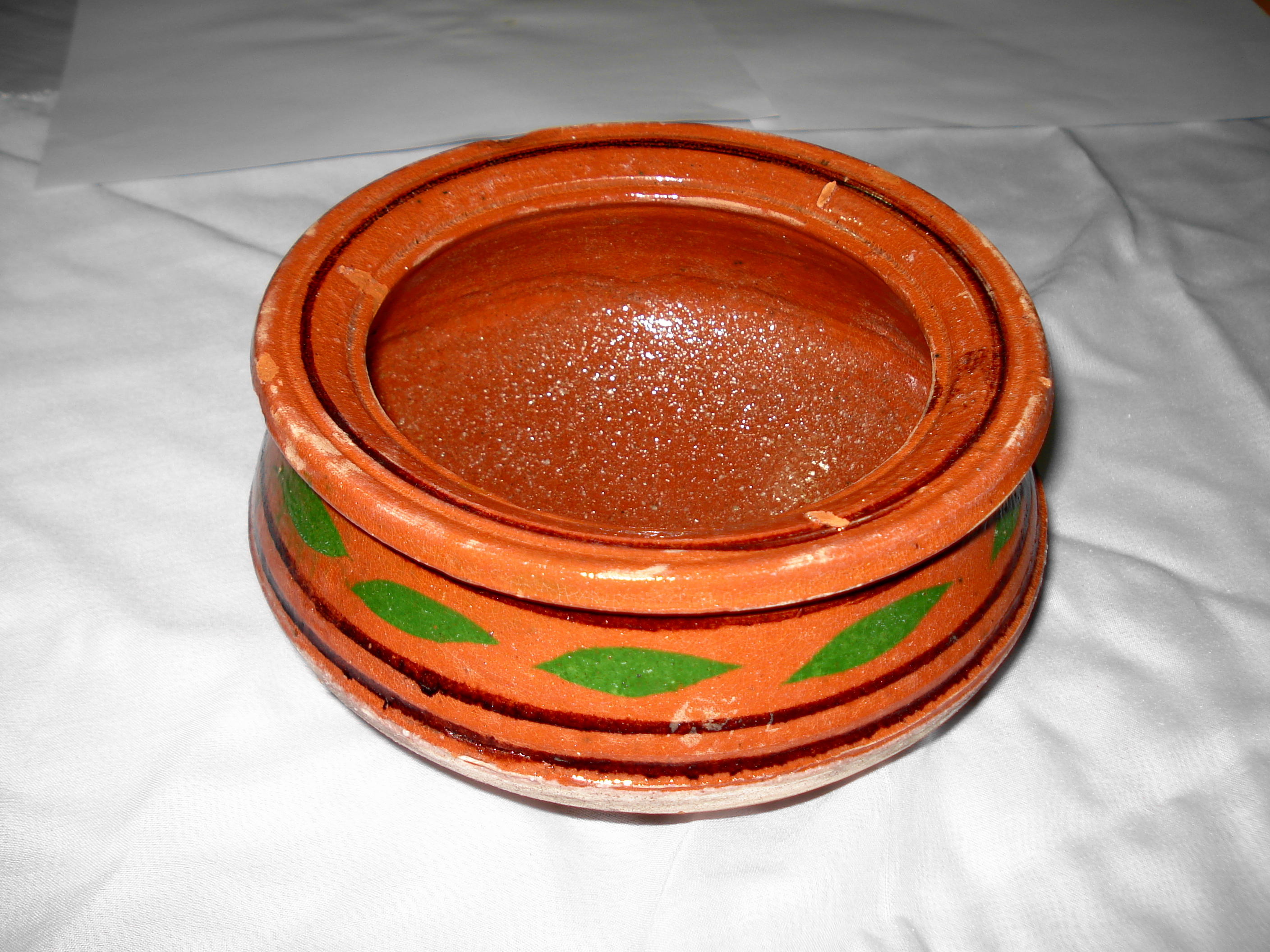 Clay pot for cooking used in Punjab